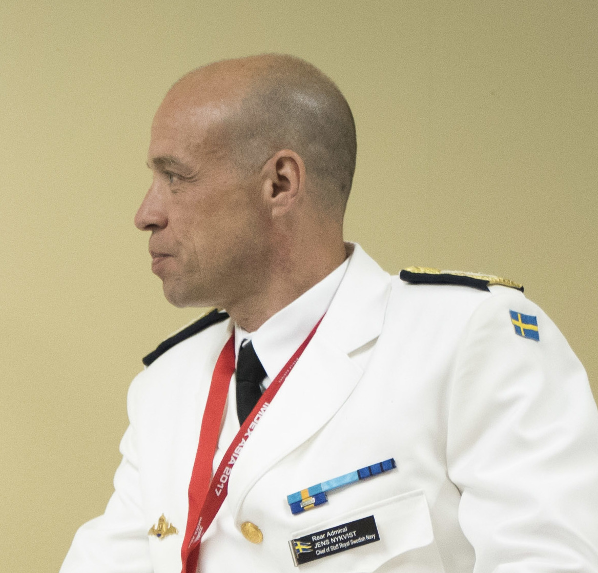 170516-N-AT895-210 CHANGI, Singapore(May 16, 2017) Chief of Naval Operations (CNO) Adm. John Richardson meets with Sweden's Chief of Navy Rear Adm. Gens Nykvist during the International Maritime Defense Exhibition. (U.S. Navy photo by Mass Communication Specialist 1st Class Nathan Laird/Released)